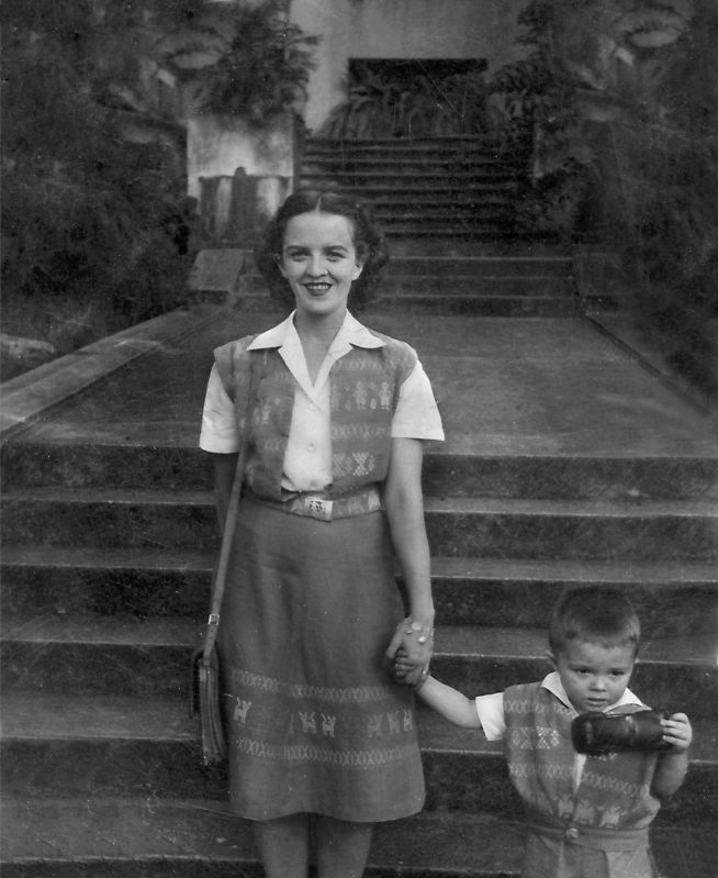 Mavis Hiltunen Biesanz in Panama on Christmas 1946